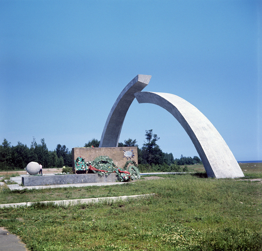 “Broken Ring monument on Road of Life”. The Broken Ring monument on the Road of Life. The city of Leningrad. the Russian SFSR.